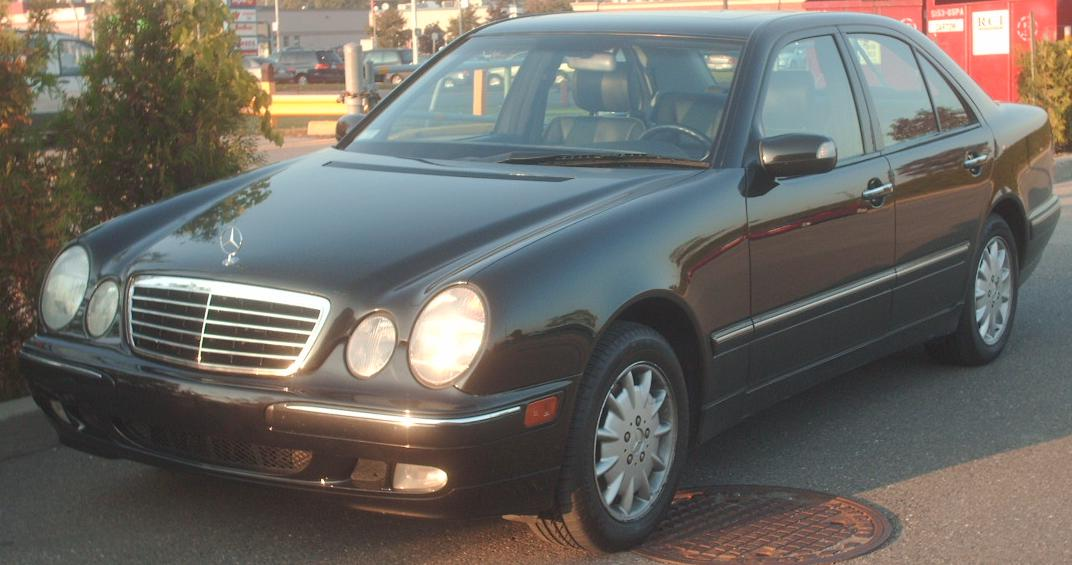 1996-1999 Mercedes-Benz E-Class photographed in Montreal, Quebec, Canada.